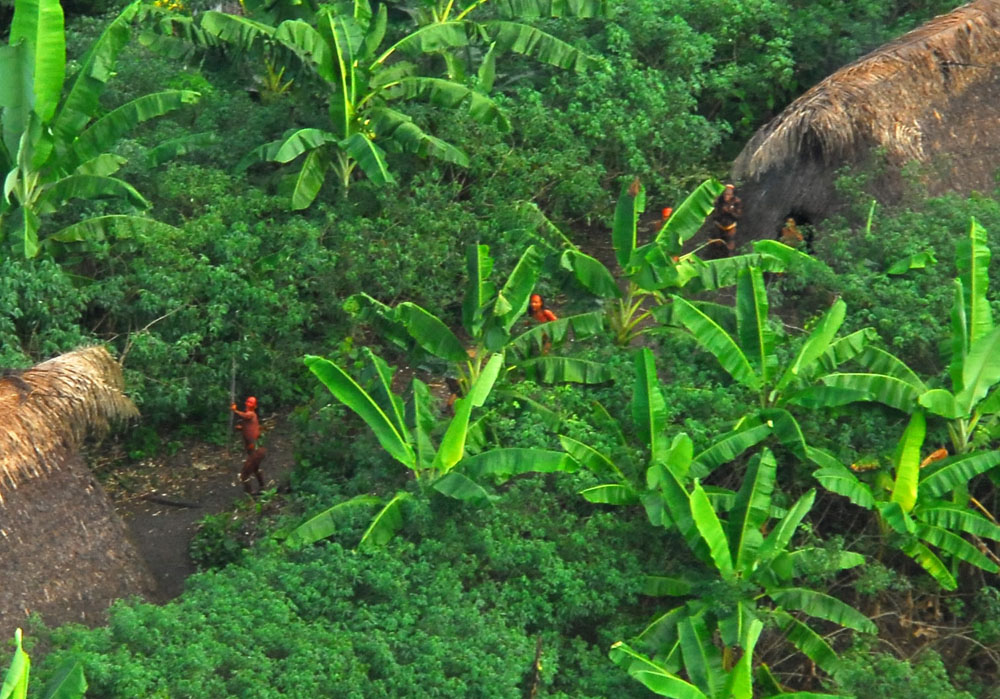 Uncontacted indigenous tribe in the brazilian state of Acre.